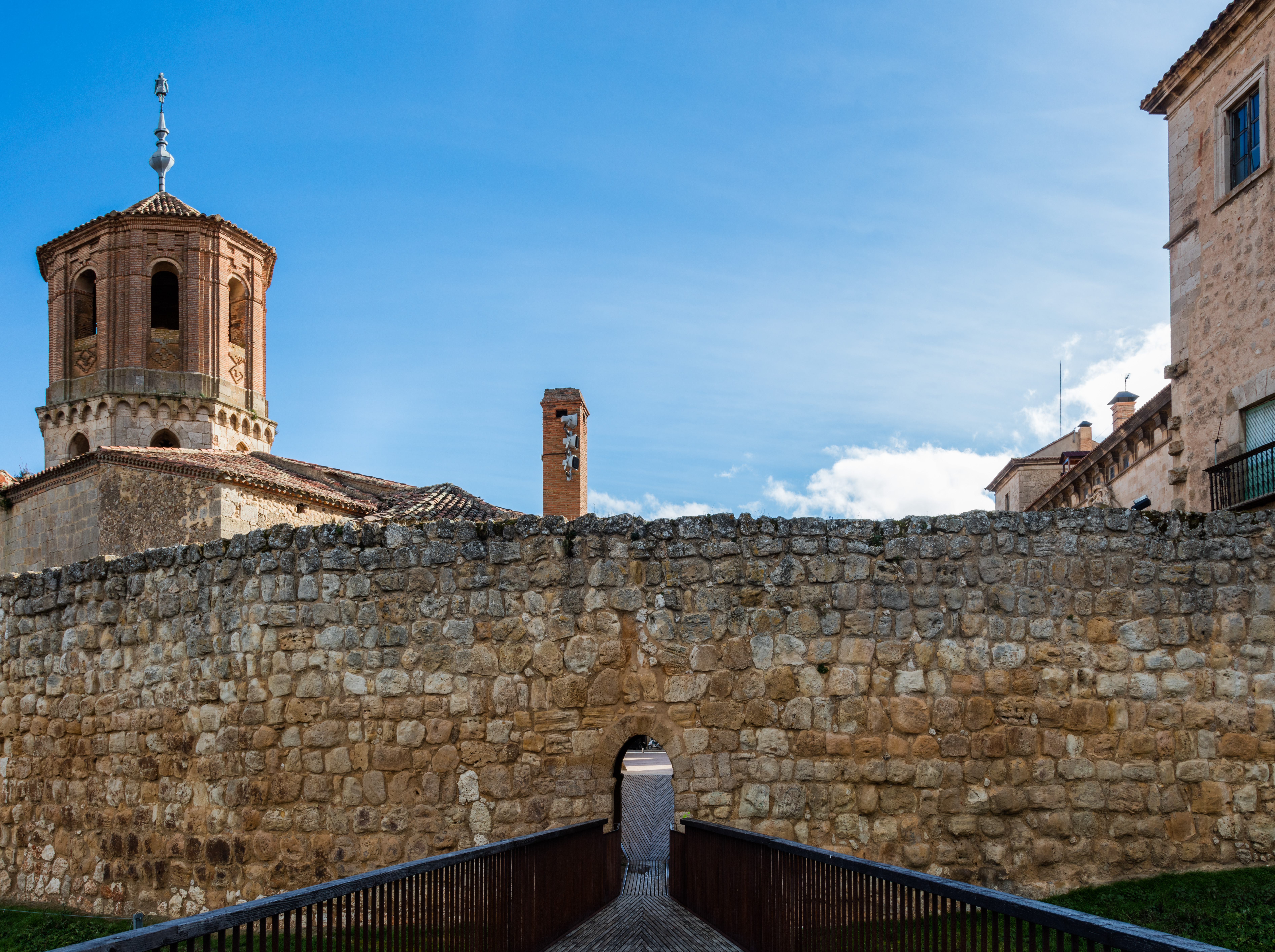 Wall, Almazán, Soria, Spain